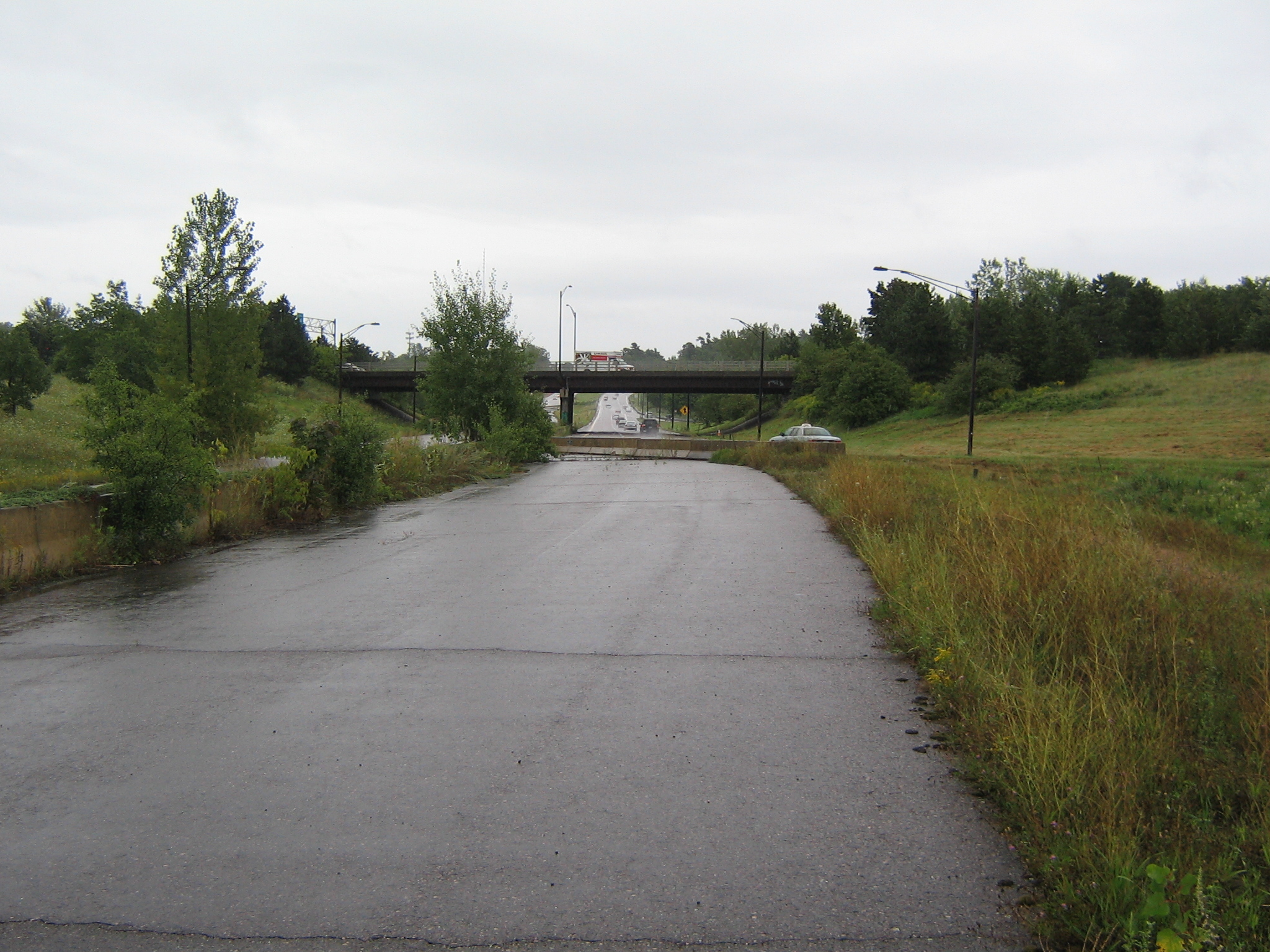 Part of a ghost ramp complex just west of the I-189/US 7 junction in Burlington VT